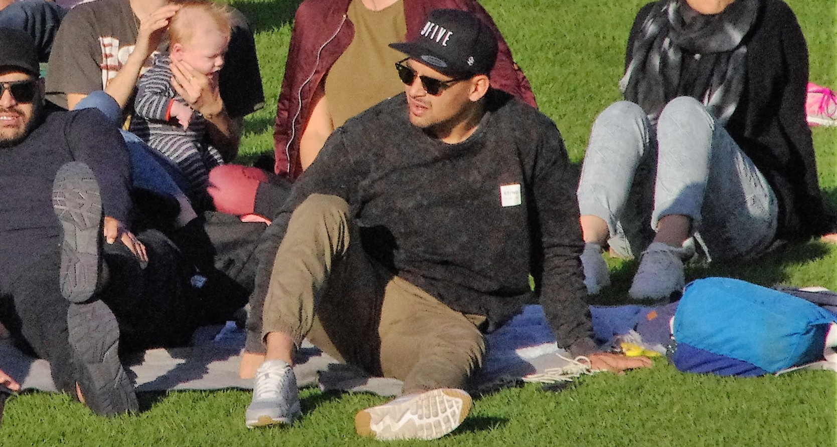 Cody Walker